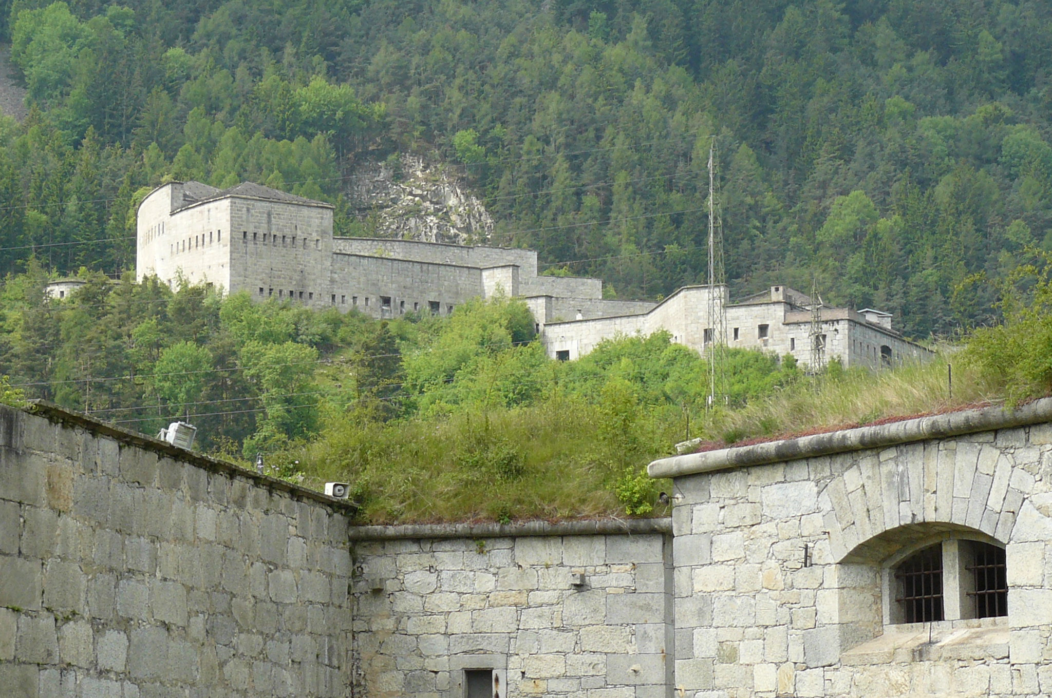 View on upper part of the Franzensfeste Fort as seen from the lower part.